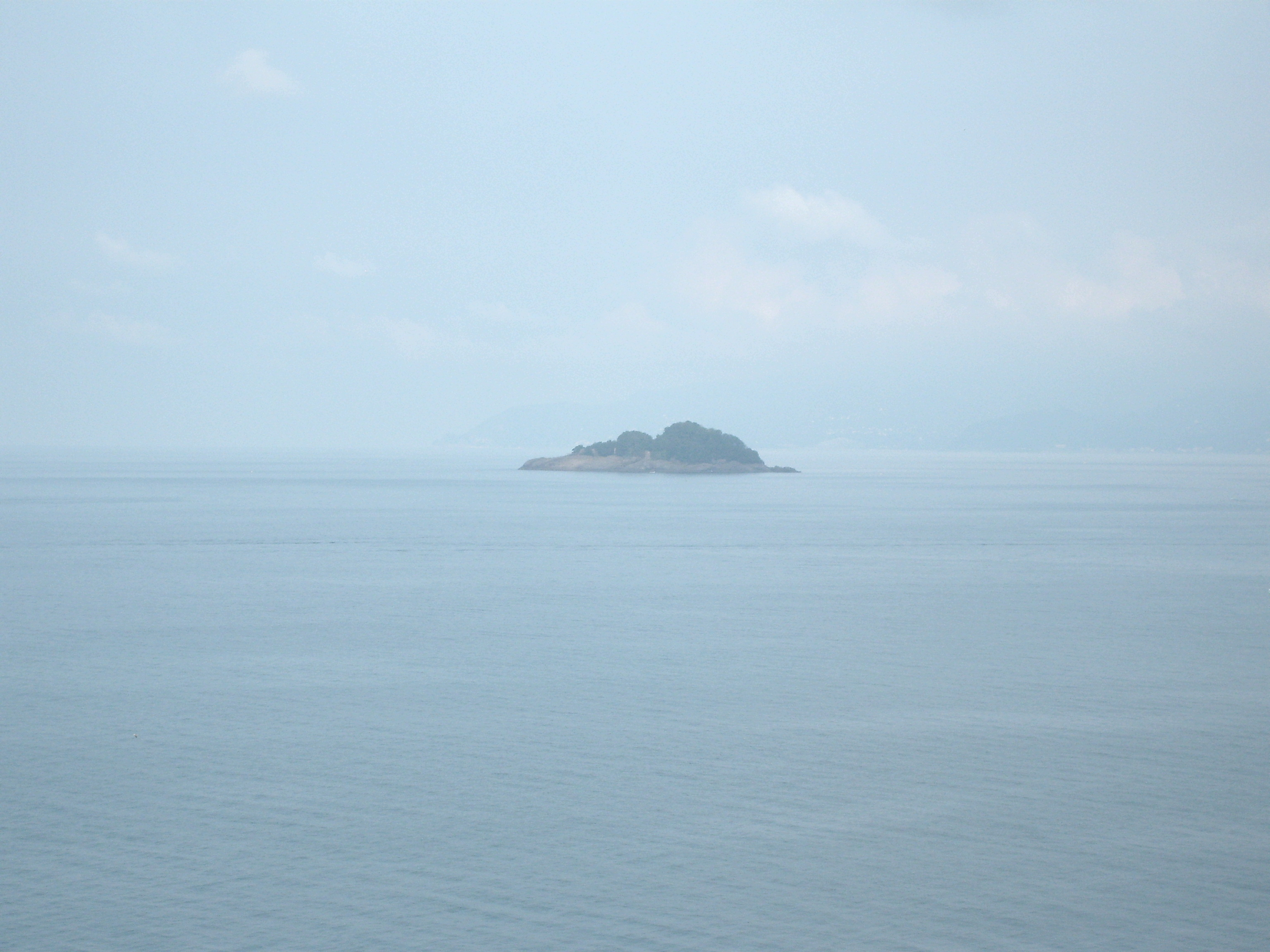 Giresun Island (Aretias)